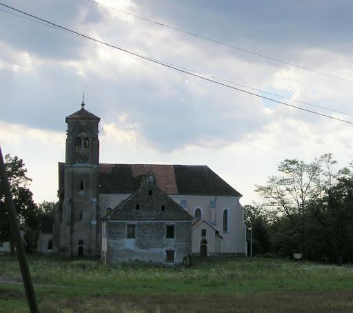 Church in Croatia